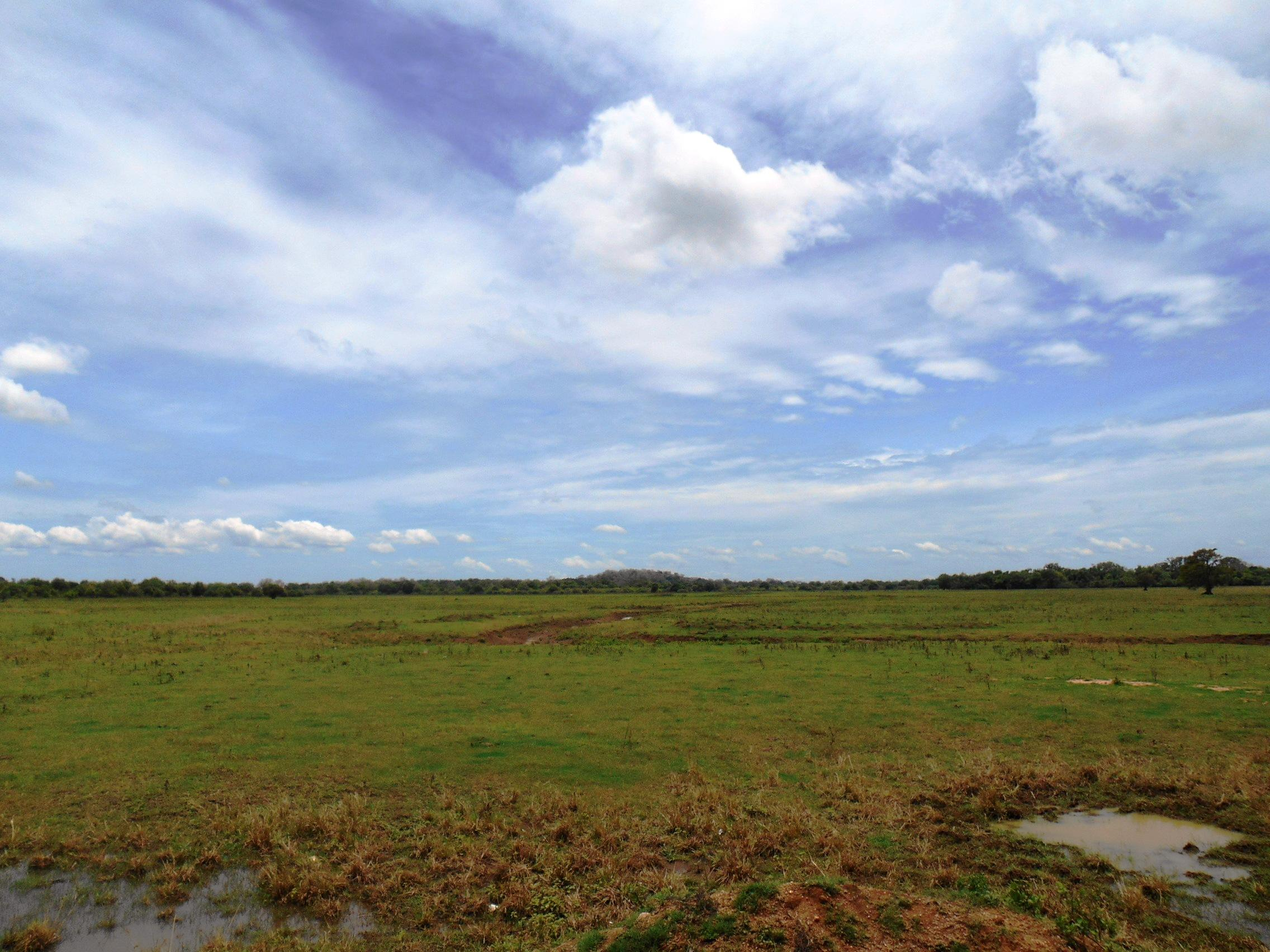 Photograph of Somawathiya National Park, Sri Lanka